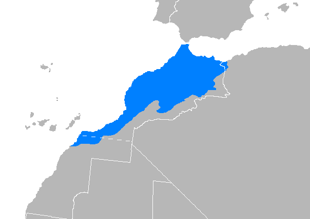 Morrocos arab.